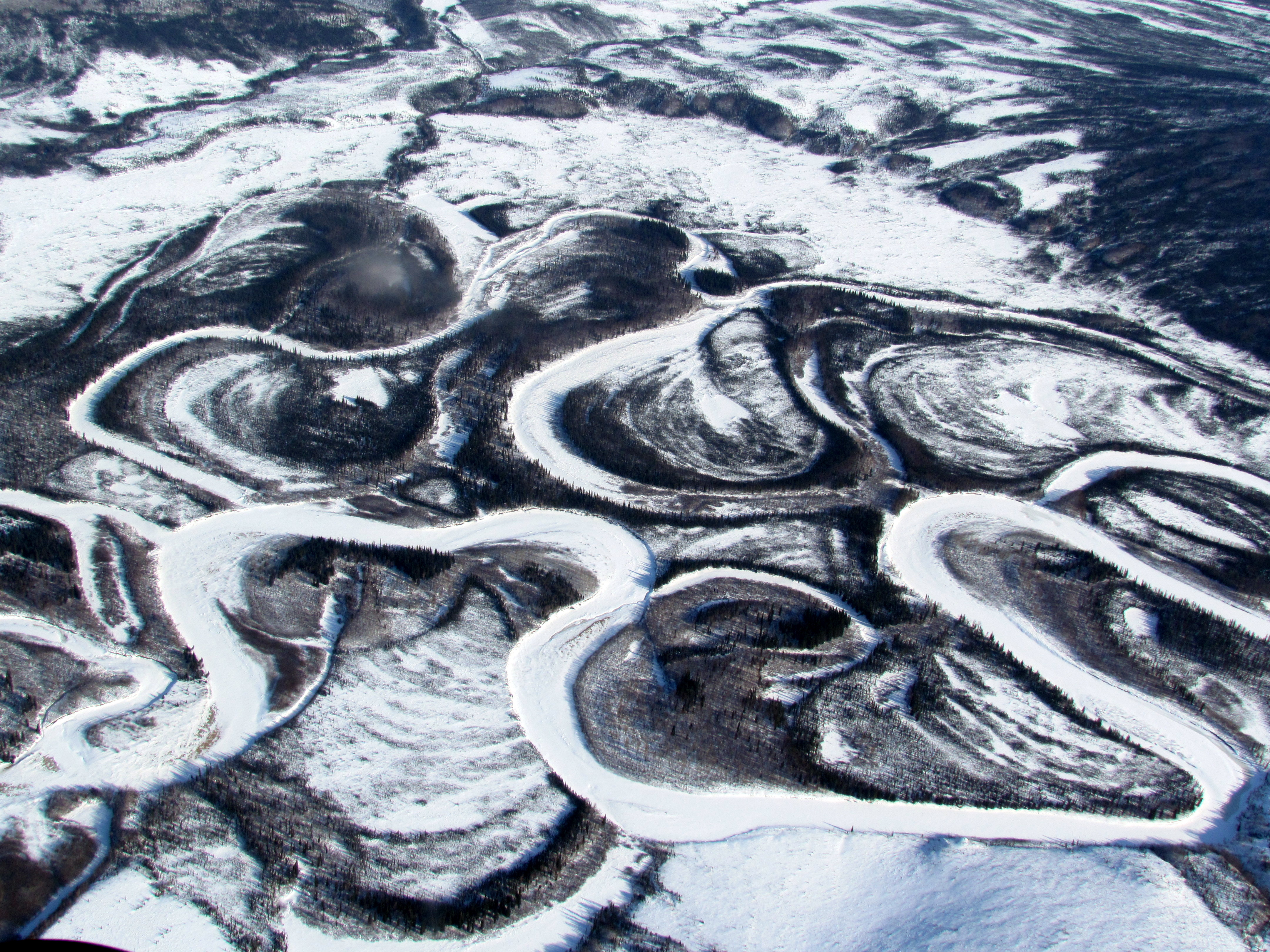 A frozen, meandering river, somewhere in interior Alaska Photo credit: Amanda Robertson